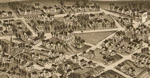 Detail from an 1886 map of Knoxville, Tennessee, showing what is now the Mechanicsville neighborhood. The building marked "L" near the center of the image is the 9th Ward School (now the location of the Moses School building).